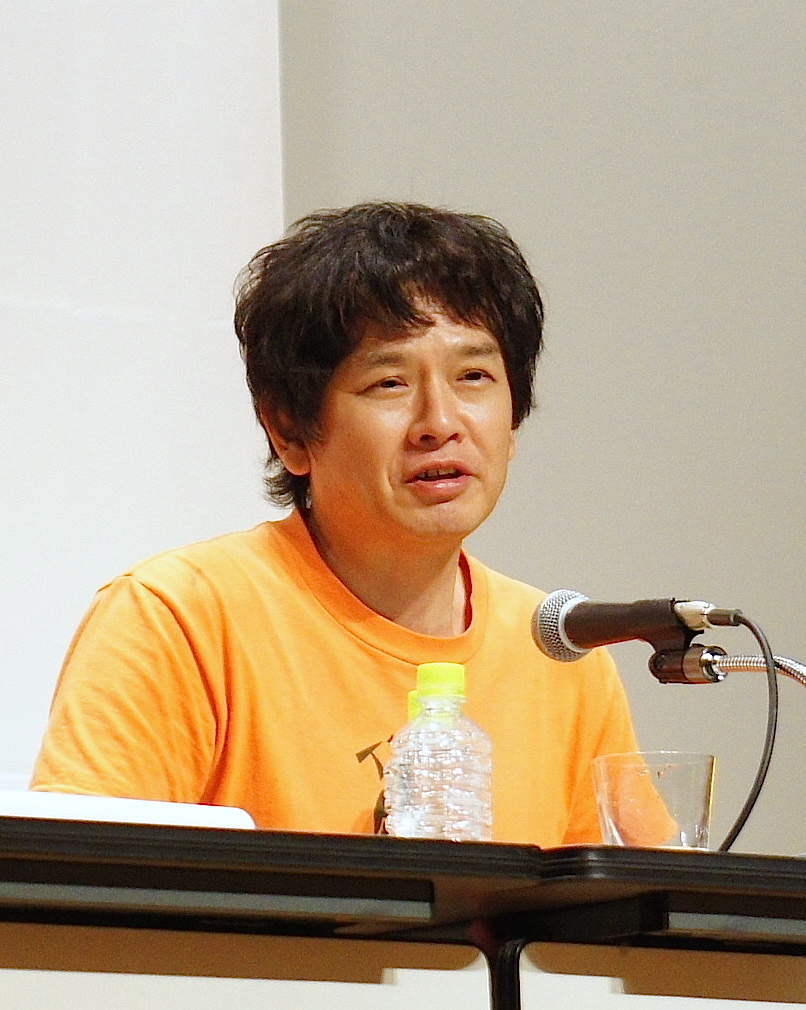 Yoshitomo Nara at a press conference, Yokohama Art Museum, 2012